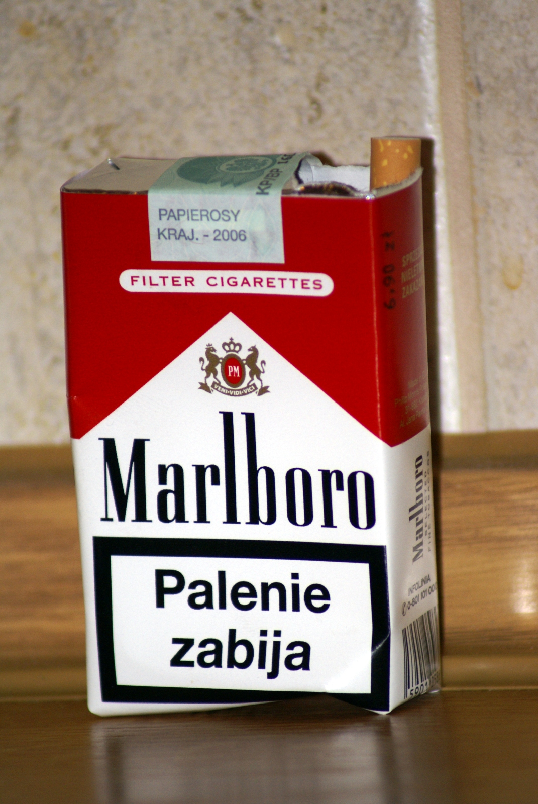 Canon Red Marlboro Author : prawdapunk Camera : Sony Alpha 100 Date : 6 January 2007